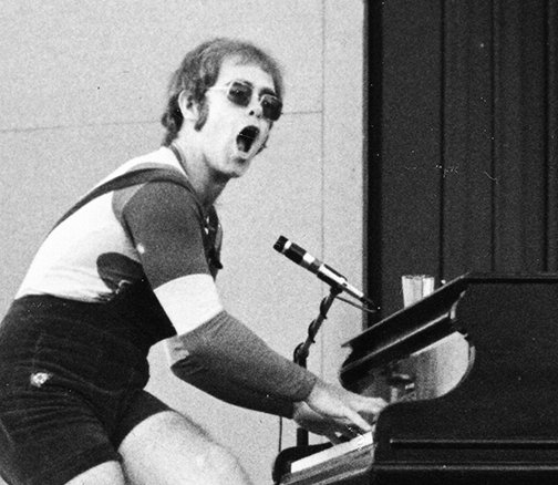 Elton John in concert at Liseberg, in 1971.